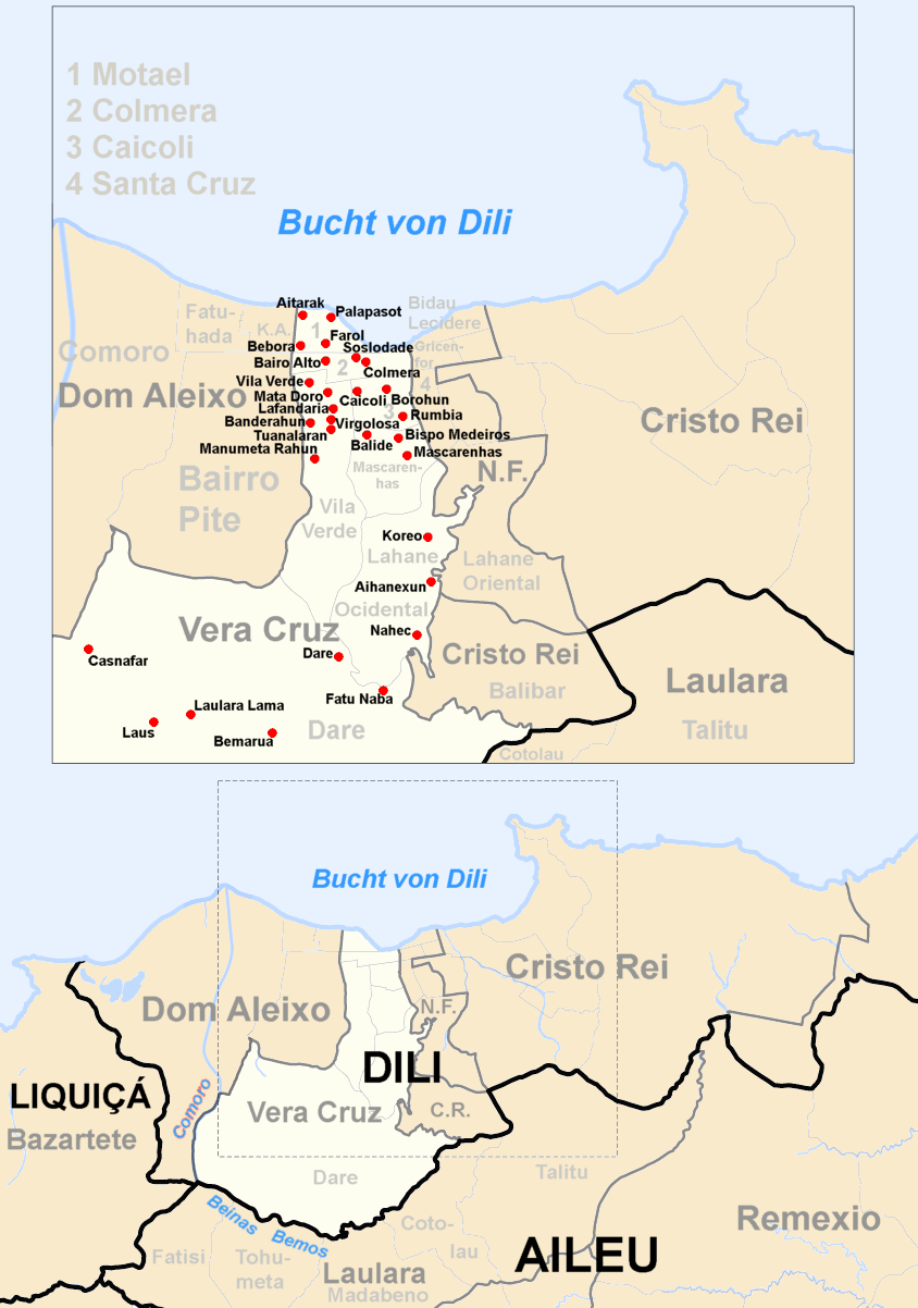 Administrative map of the Vera Cruz subdistrict of East Timor